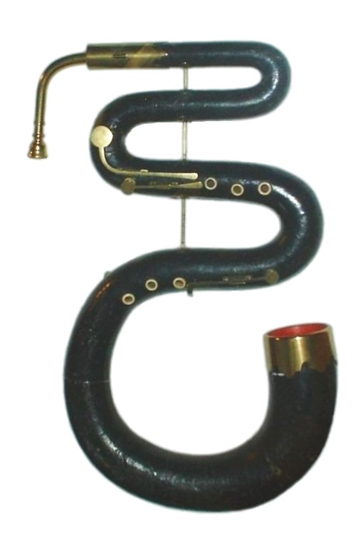 Serpent (musical instrument); photographed at the V&A museum, London